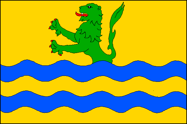 Municipal flag of Zbytiny village, Prachatice District, Czech Republic.